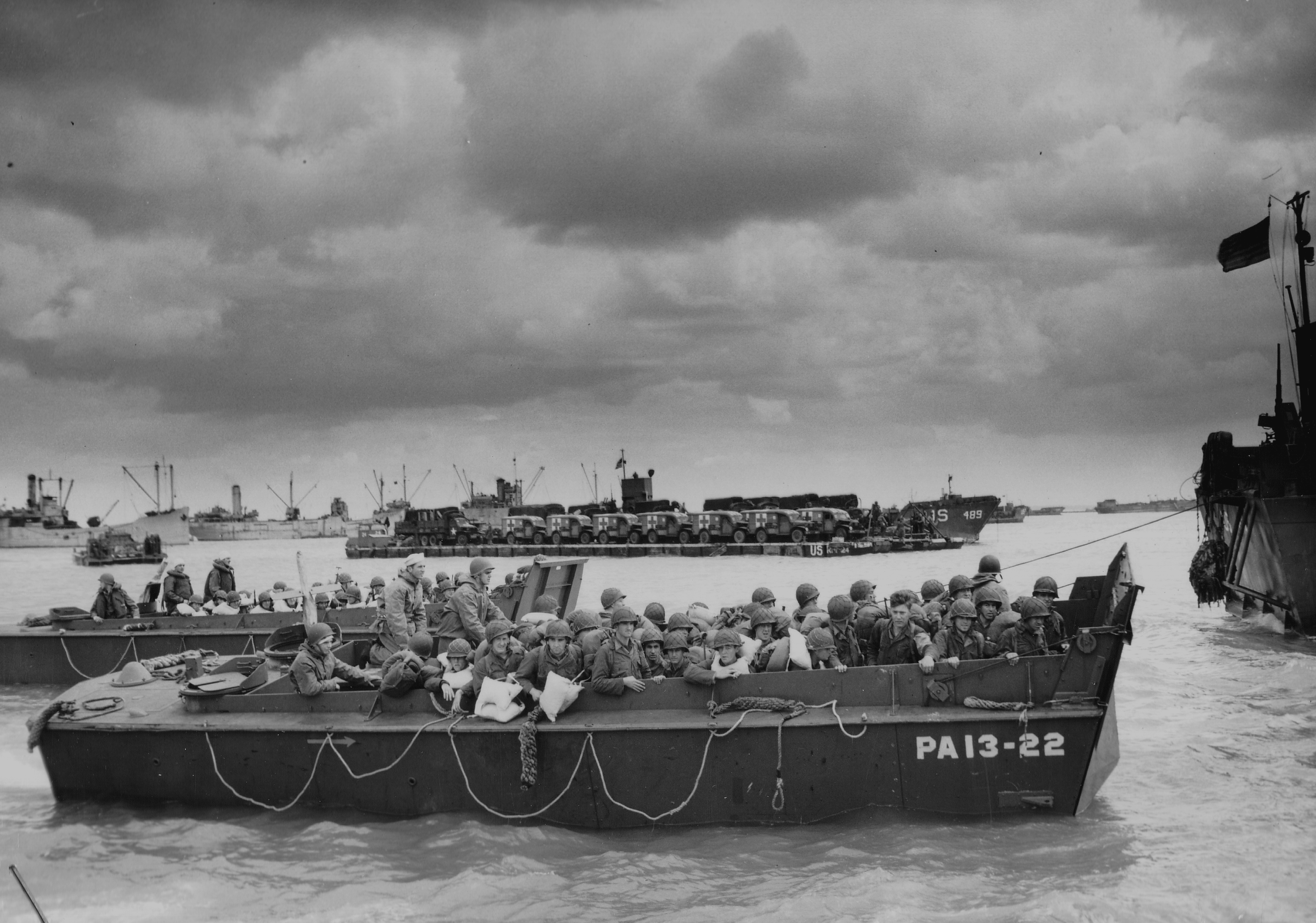 U.S. troops disembarking on Utah Beach, 6 June 1944. The LCVP in the foreground was assigned to the U.S. Navy attack transport USS Joseph T. Dickman (APA-13), which had sailed from England on 5 June and arrived off Utah Beach early the next day. Joseph T. Dickman landed her troops without a mishap, and steamed to Portland with casualties in the afternoon of 6 June 1944. Original description: "Cloud of ships near normandy coast - 6 June 1944".